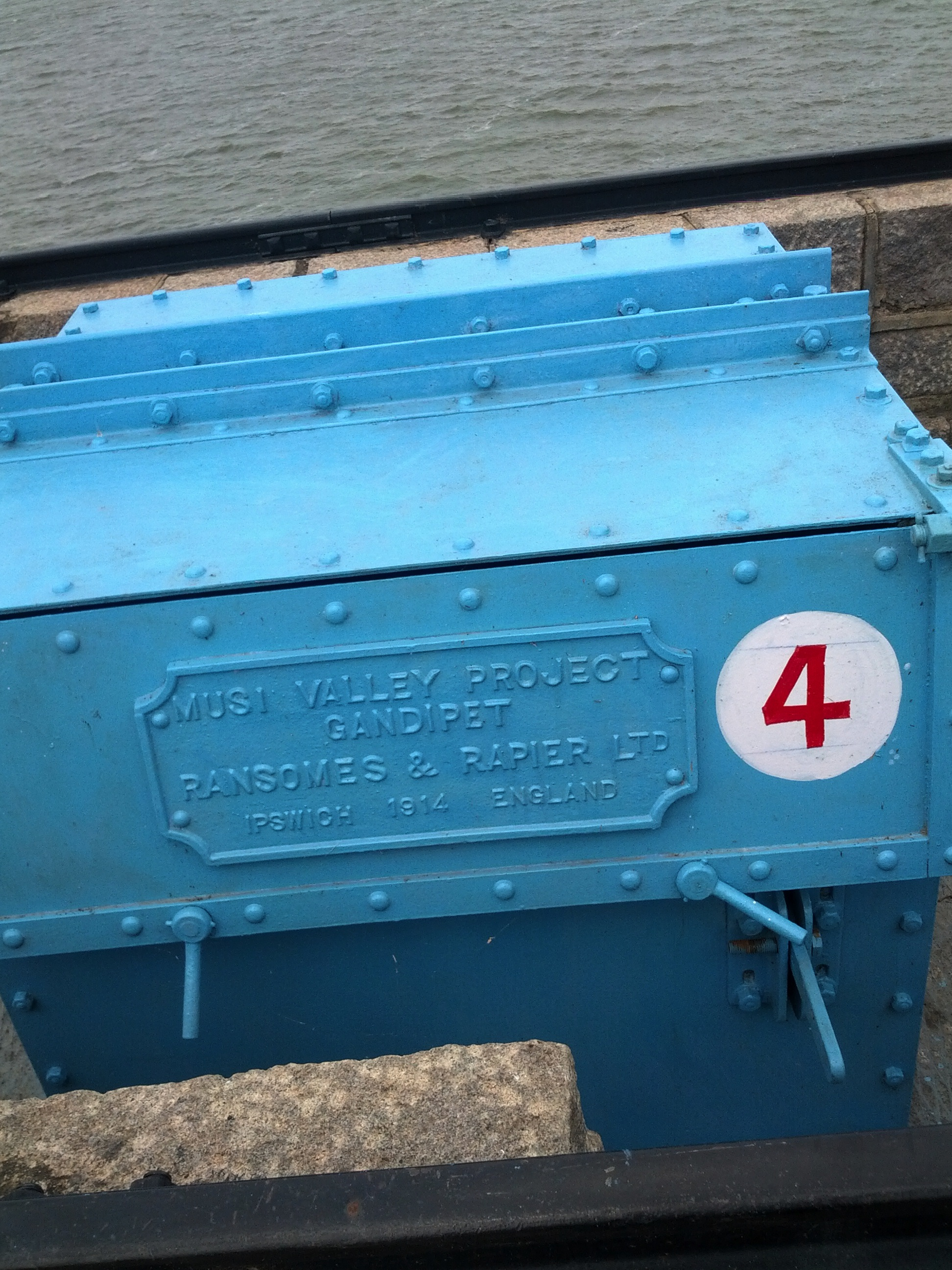 Gate 4 at the Musi Valley Project at Gandipet near Hyderabad. The sluice gates bear the markings of "Ransomes & Rapier Ltd, Ipswich, 1914, England"